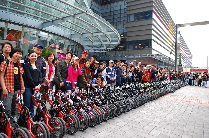 Taiwan Strida Users group